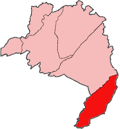 Map of Lofa County, Liberia showing Salayea District; created with the GIMP. Made by User:Acntx.